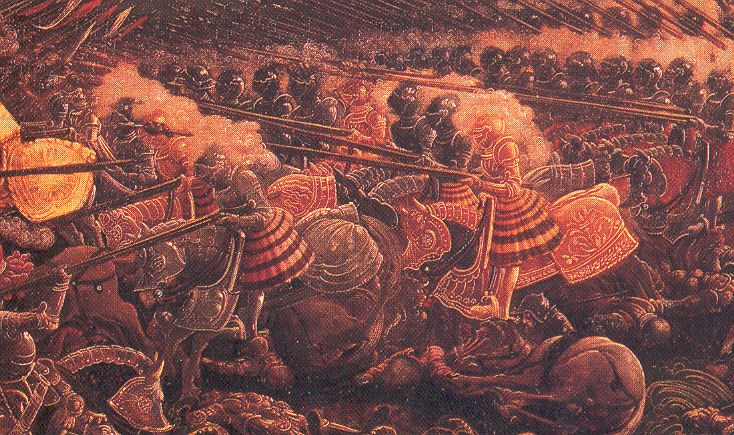 French Gendarmes in the Italian Wars, early to mid sixteenth century. These men represent the return of the knight, now called Gendarme, to mounted combat. By the middle of the sixteenth century they would abandon the lance in favor of pistols, and during the seventeenth century the heavy cavalryman would progressively shed his heavy armour as well.